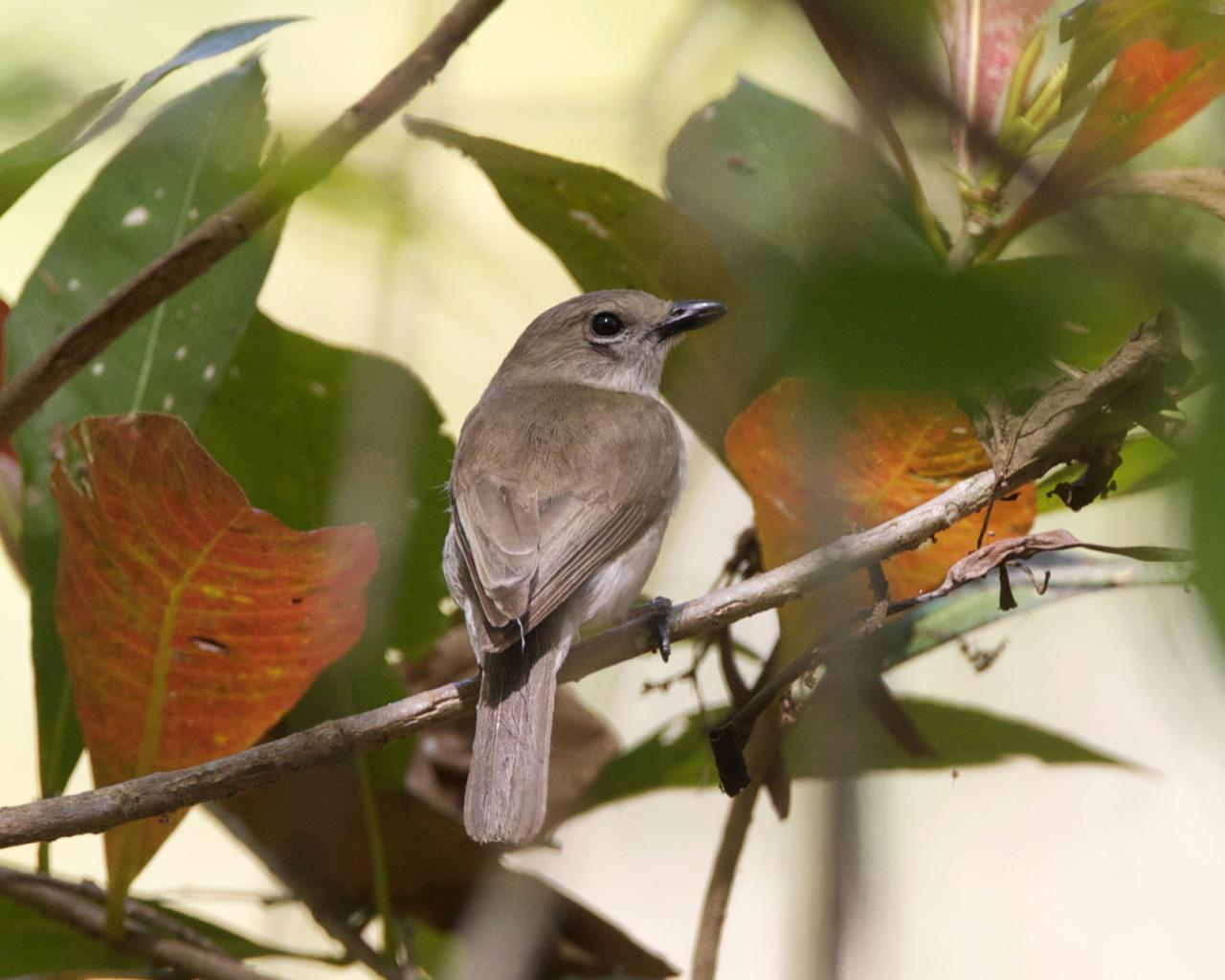 Grey Whistler / Gray Whistler Pachycephala simplex nominate race Northern Territory, Australia August 2010 690V9888